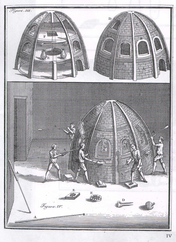 Copper engraving from Antonio Neri's "L'Arte Vetraria" dated (1612)